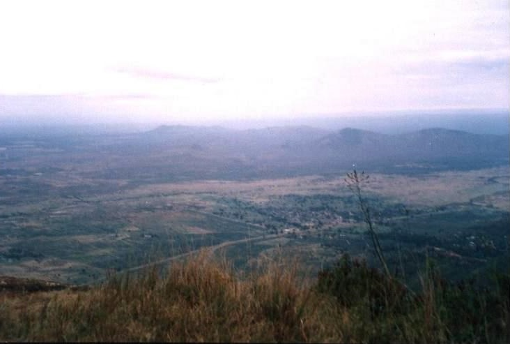 Irente View Point on the Usambara Mountains in Lushoto District, Tanga Region, Tanzania.